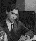 Tony Vilas-actor